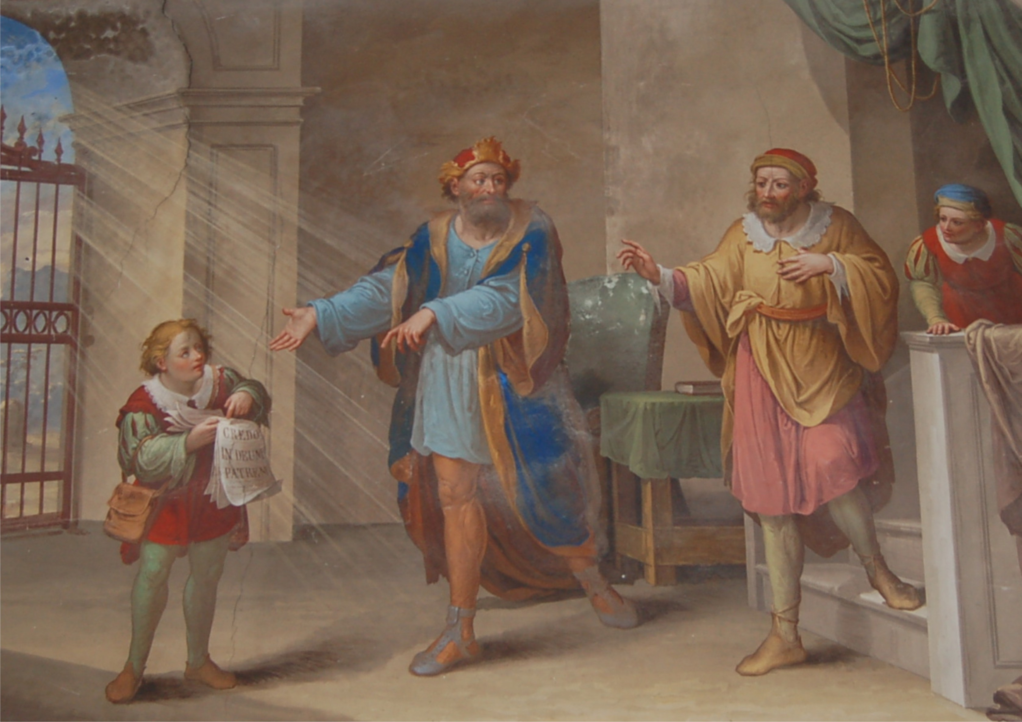 Prova